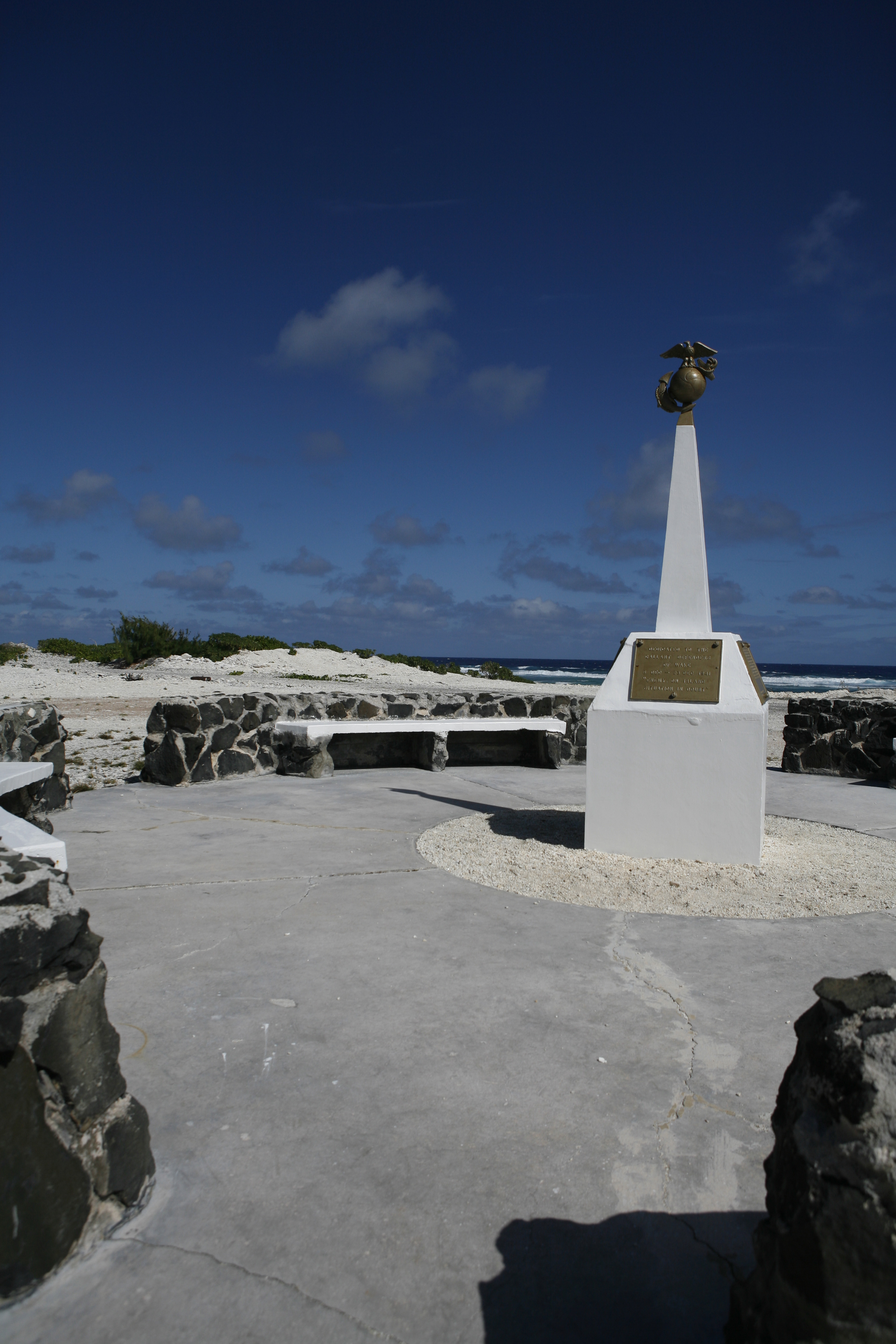 A memorial to the defenders of Wake Island, including Marine Fighter Squadron 211, stands near the command post of Maj. James Devereux, who lead the defense of the island from Dec. 8-23, 1941. On Jan. 8, 2009, approximately 60 Marines from Marine Attack Squadron 211 returned to Wake Island en route to a deployment to Iwakuni, Japan. The visit marked the first time since 1993 the bulk of the squadron, nicknamed the "Wake Island Avengers" after the original defenders where killed or captured by Japanese forces during the island's siege, has returned to the remote Pacific atoll. VMA-211 is based in Yuma, Ariz. (Photo by Gunnery Sgt. Bill Lisbon)